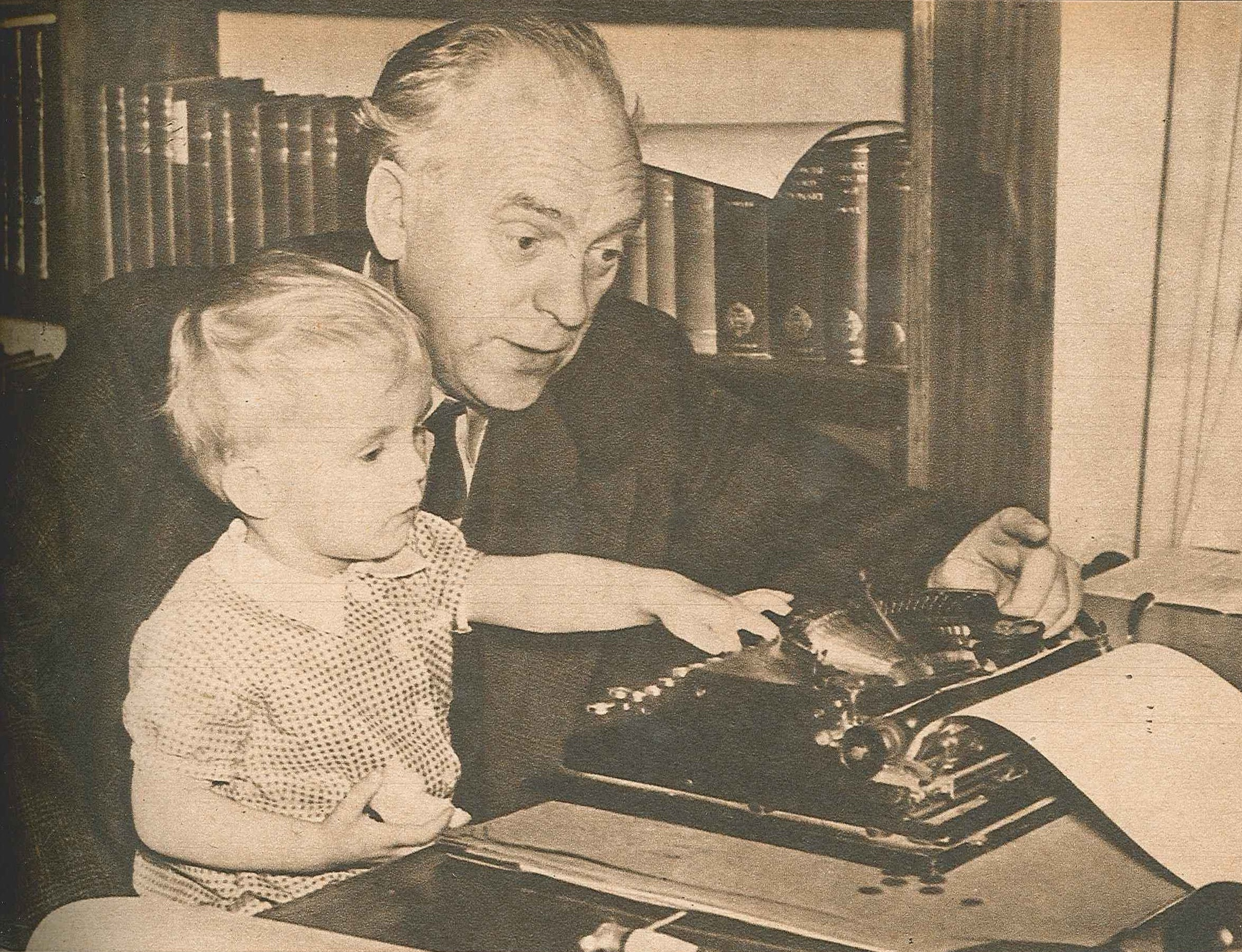 Frans G. Bengtsson (1894-1954), Swedish author, with his son Joachim.